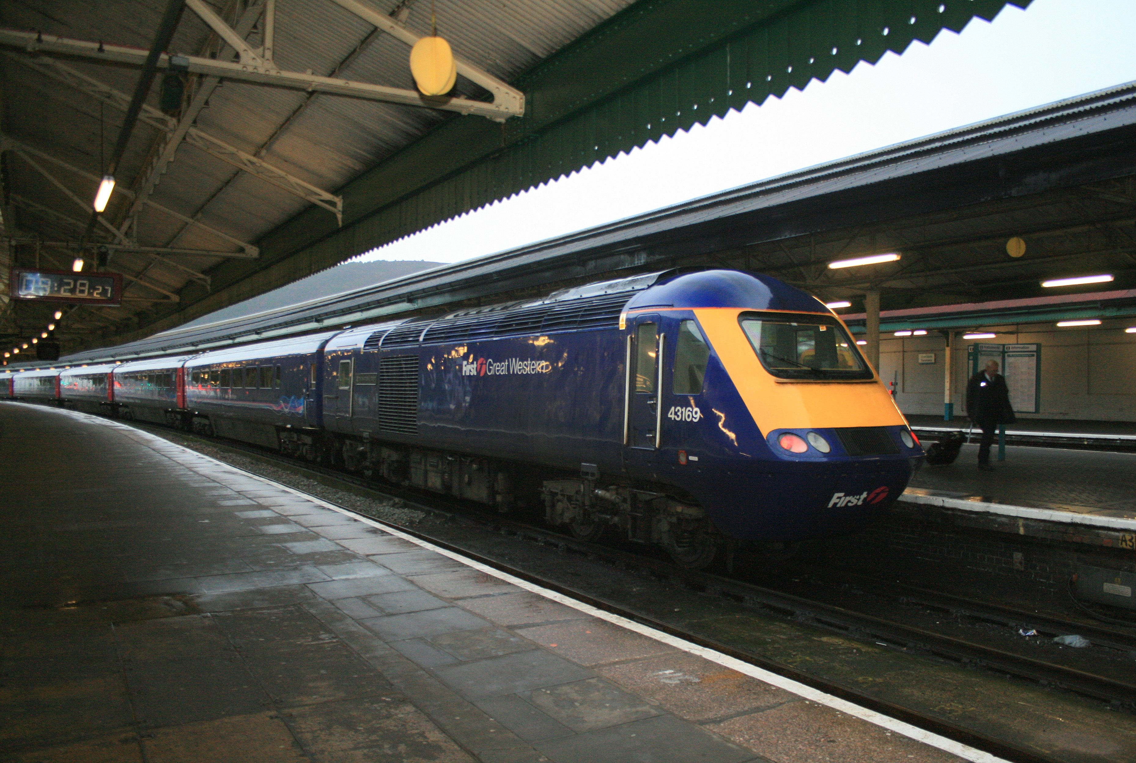 A First Great Western InterCity 125 at Swansea, where it terminates with a service from London Paddington. The InterCity 125 is the world's fastest diesel train and is used on high-speed intercity services in Britain which involve the use of unelectrified lines. Currently all daytime intercity services by First Great Western use InterCity 125 sets with the exception of certain services to Hereford, Great Malvern and Oxford (though some do use the InterCity 125). The InterCity 125 will be replaced on services from London Paddington to Bristol, Cardiff, Swansea and Oxford by 2018, but will remain on services to Carmarthen, Pembroke Dock, Cheltenham, Gloucester, Worcester, Plymouth, Penzance, Newquay, Exeter, Taunton, Westbury and Weston-super-mare until at least 2035, as there are no proposals to electrify the lines there.